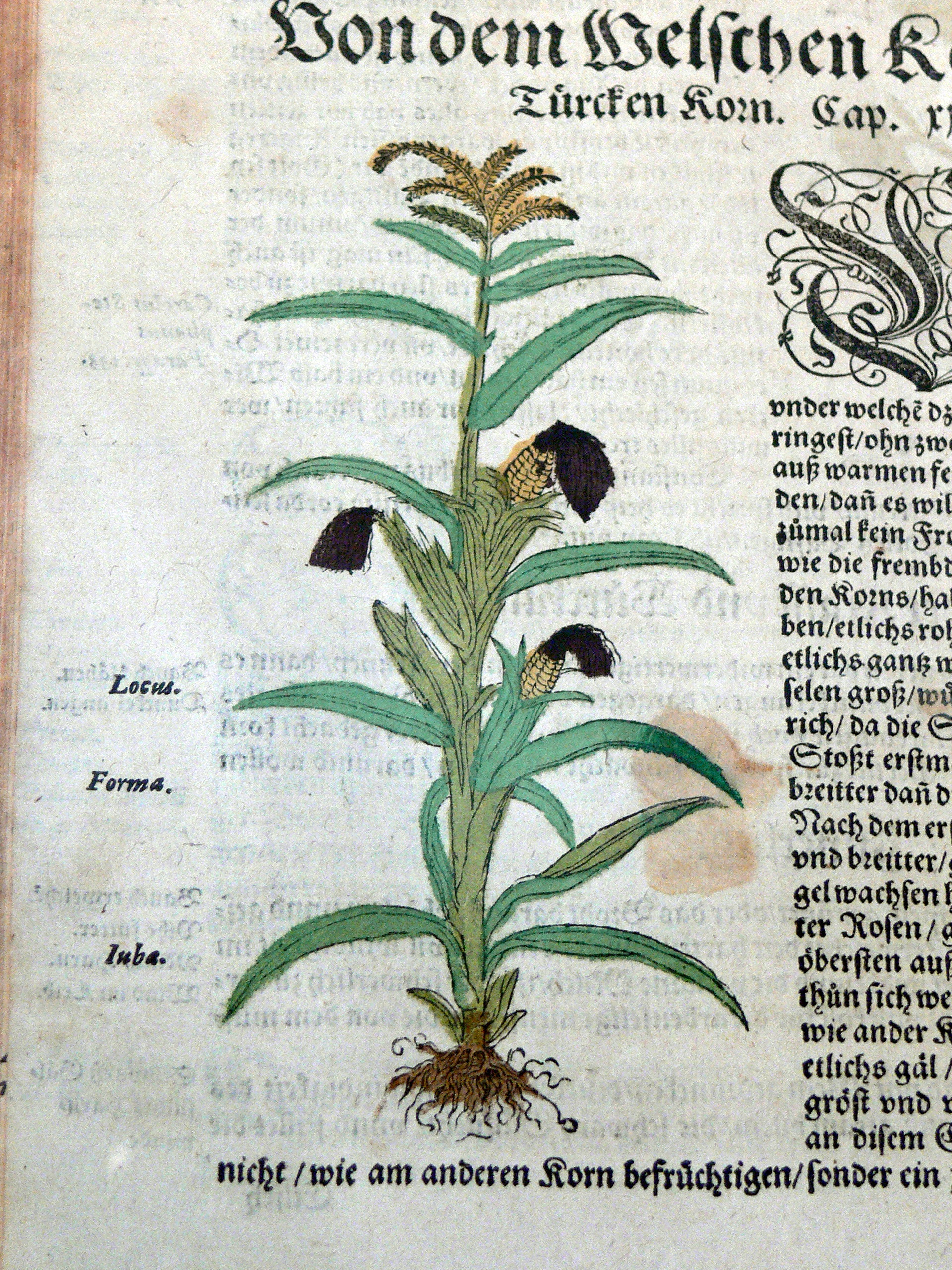 Illustration of a maize plant in "Kräuterbuch" by Hieronymus Bock, Straßburg, 1577 (Upper Austrian county museum, Library, Sign. II 2909)